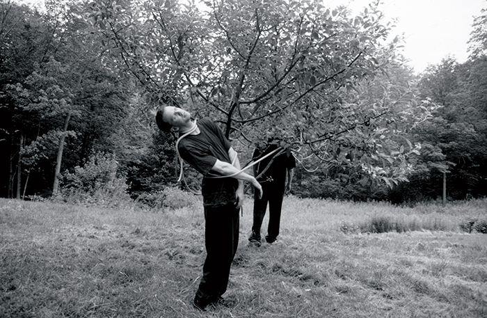 This photo was taken by the artist, Lenore Malen, as imagery for her 2005 artist book "The New Society for Universal Harmony," published by Granary Books